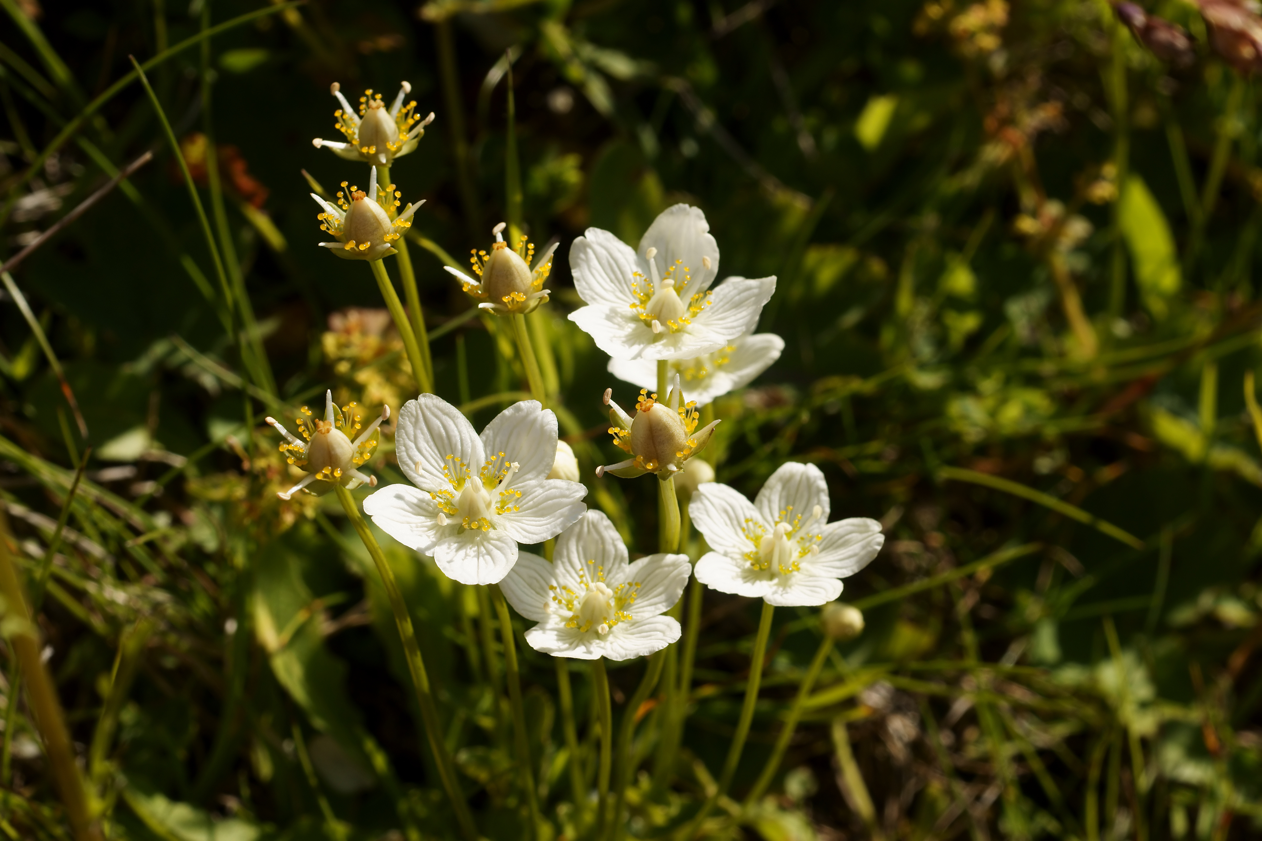 Parnassia, at the Simplon Pass, Wallis, Switzerland